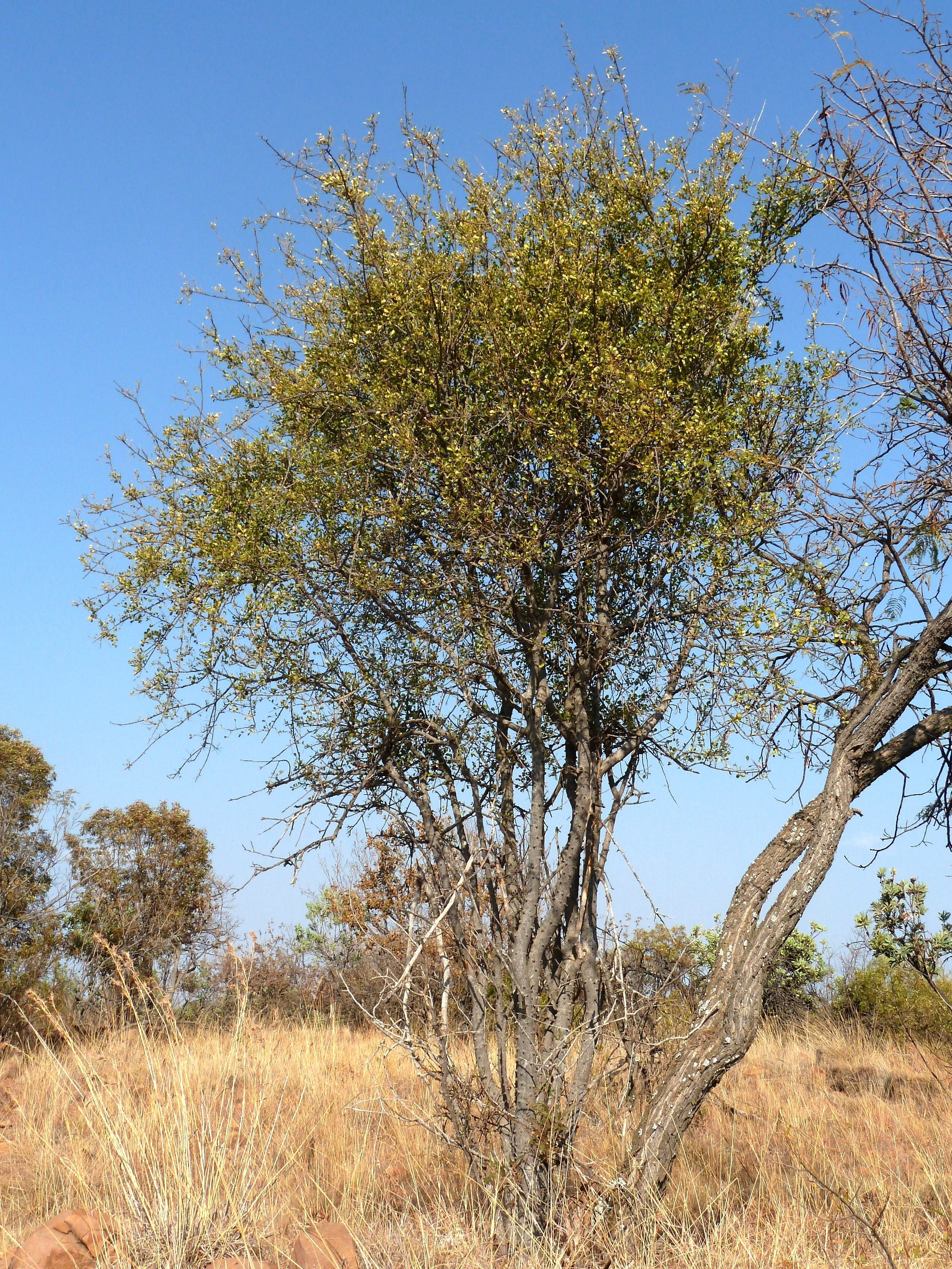 Habit of a Small Knobwood in the Waterberg, South Africa